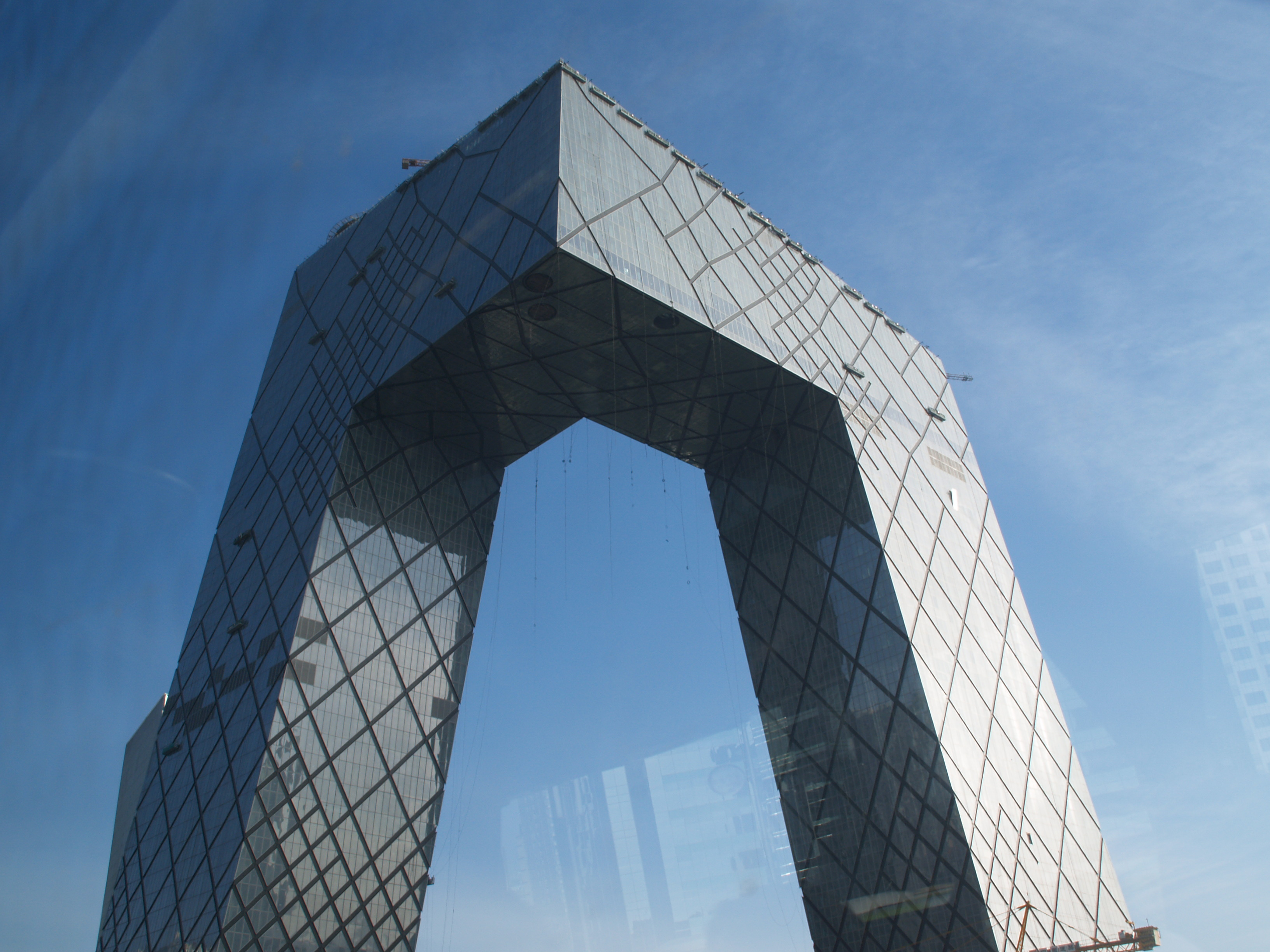 New CCTV building in Beijing